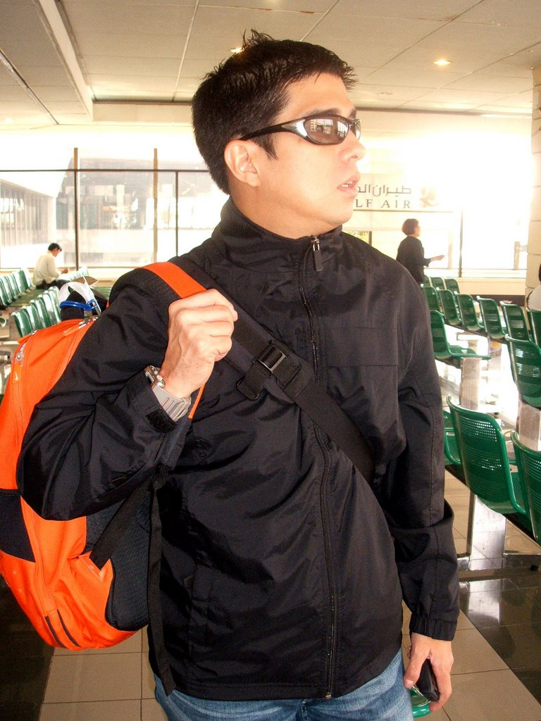 This photo was taken by Pia Magalona at the Departure Area of Ninoy Aquino Airport (Manila) in October 2006. We embarked on a three-week tour of Europe for "Kumustahan 2006," along with artists Jolina Magdangal, Rico J. Puno, Bituin Escalante and Ms. Nanette Inventor.